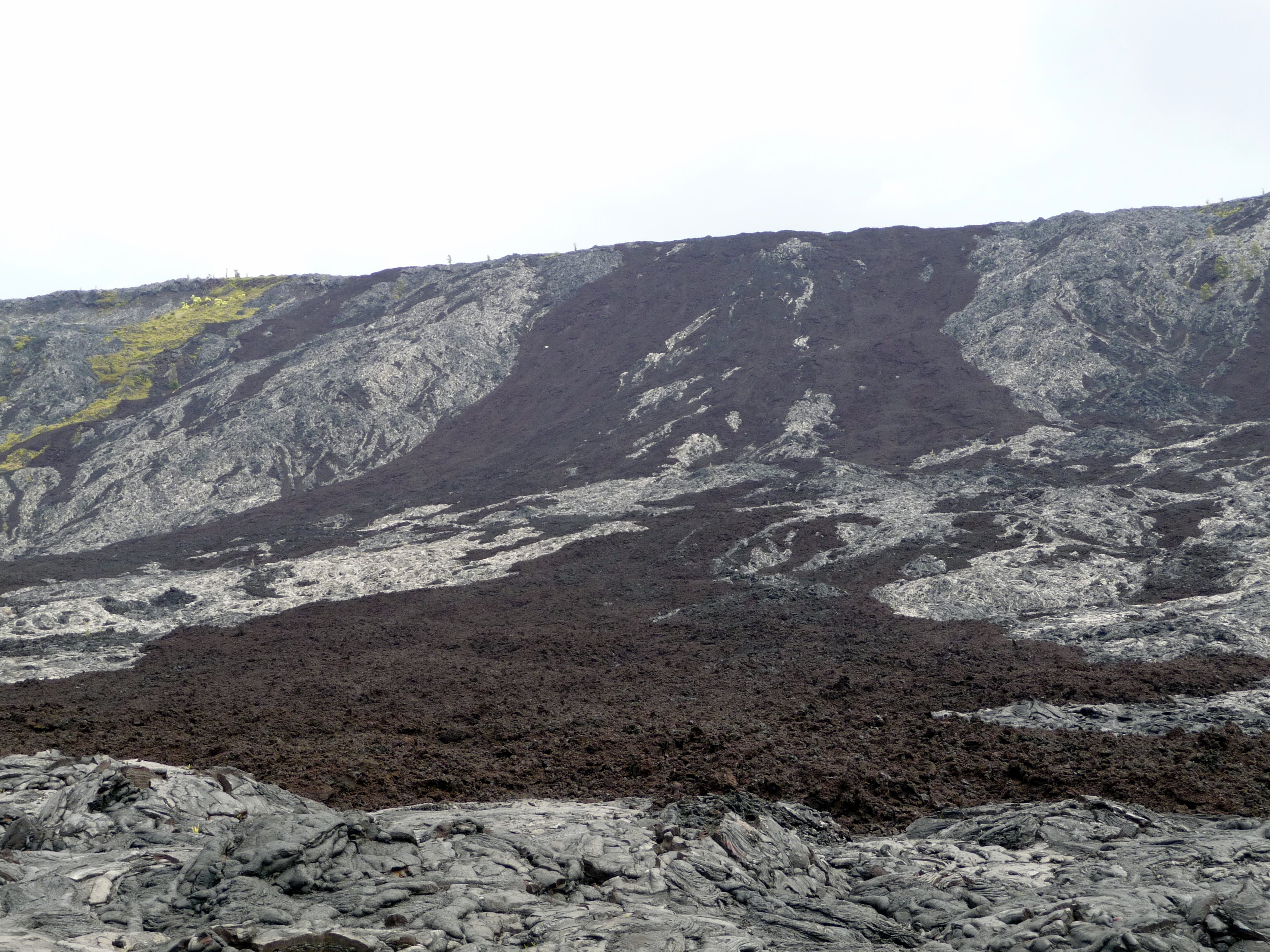 Lava flow near Kealakomo, Chain of Craters Road, Kilauea, Hawaii, United States